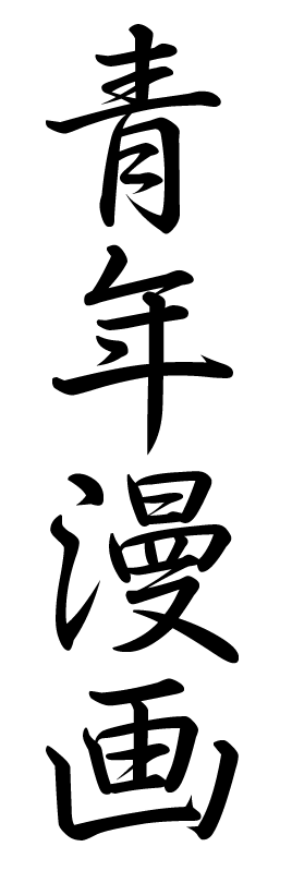 Seinen manga (青年漫画) in Japanese. Font used: Epson Gyosho.